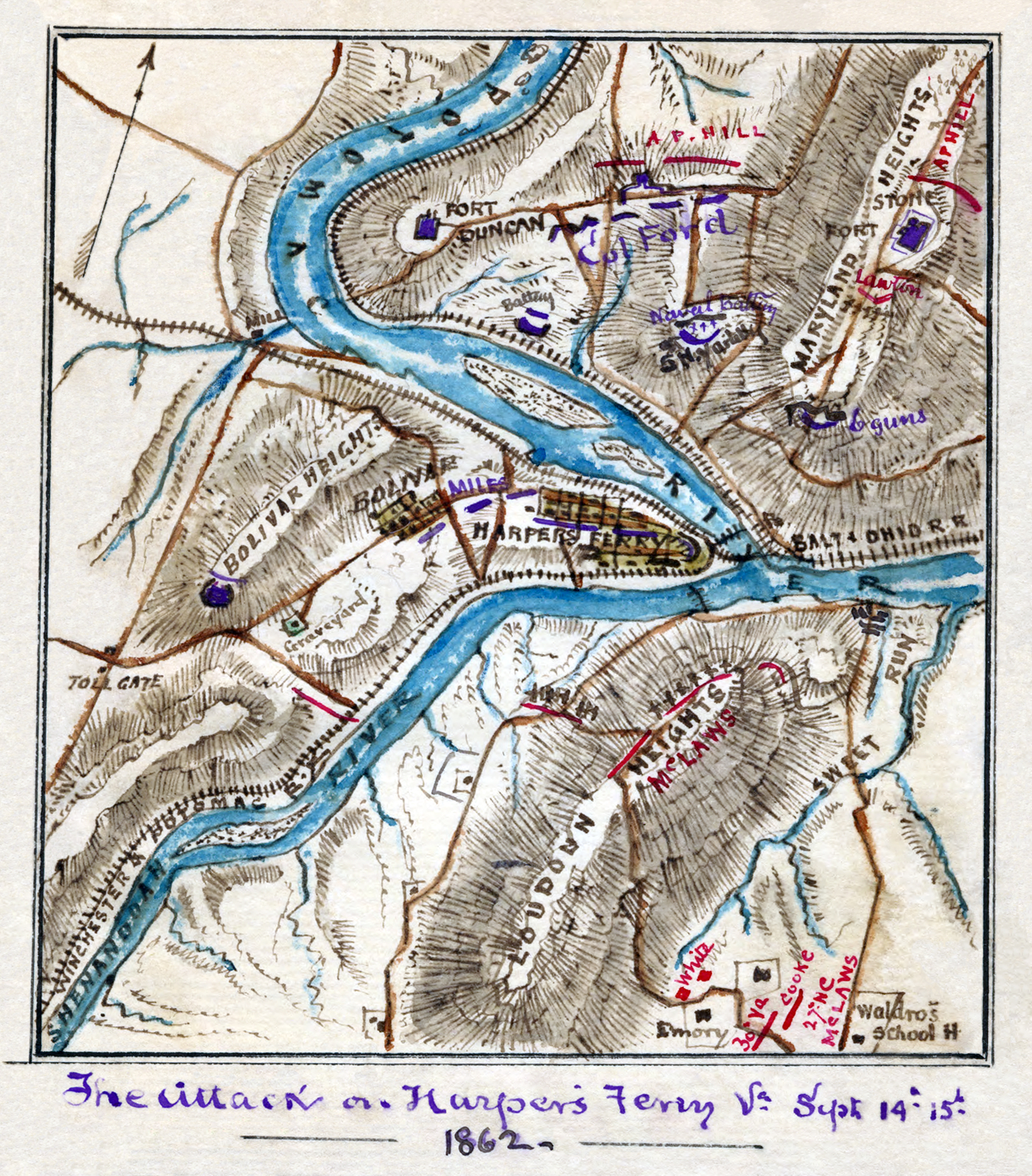 Scan of a manuscript map by a Union Army mapmaker during the American Civil War. Shows the area surrounding Harper's Ferry, W. Va., at the intersection of the Potomac and Shenandoah Rivers as the Confederate forces under Jackson began their assault, Sept. 12-15, 1862.